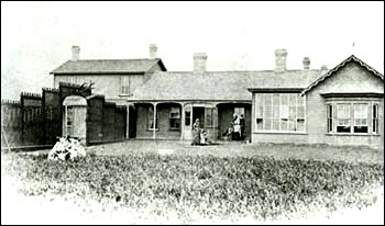 Constructed in 1883, the structure was assembled from several prefabricated buildings that were built in eastern Canada and transported to the new site. Designed by the staff of the Department of Public works in Ottawa.